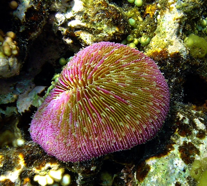 Plate coral (Fungia sp.). The picture was taken in Papua New Guinea